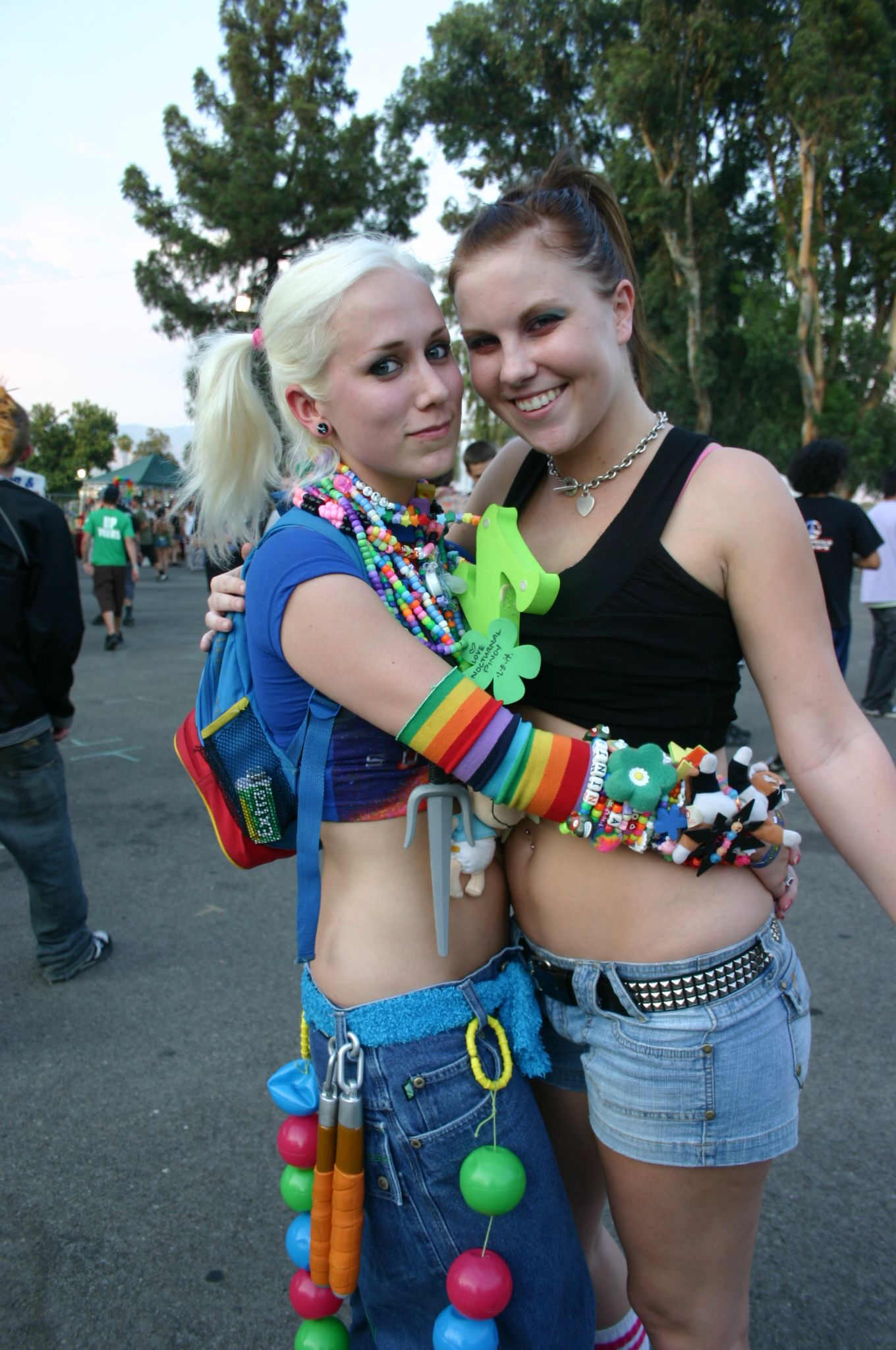 IT Productions LA